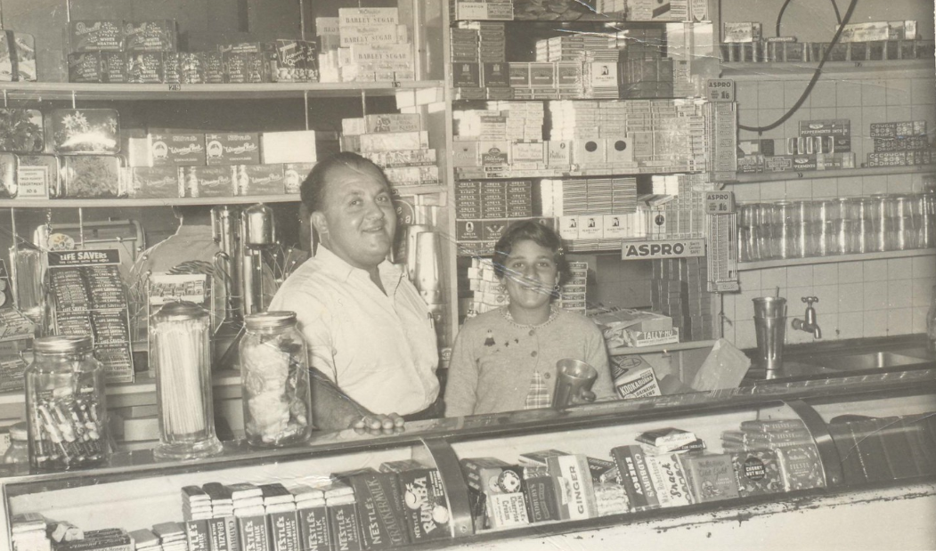 Spiros fish café, 112 Auburn Street, the milk bar showing John Pandelakis and daughter Flora.